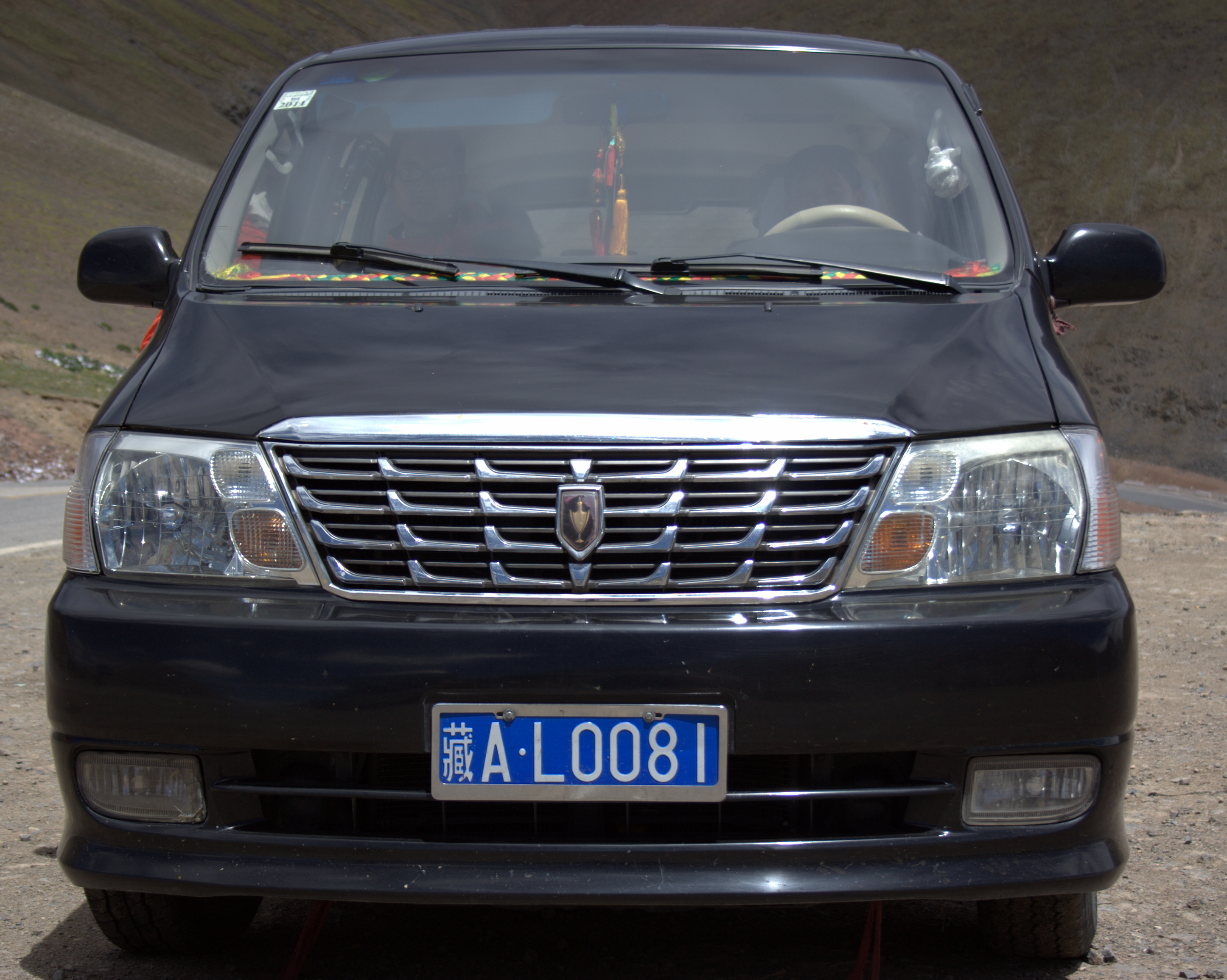 Chinese-built automobile in Tibet.